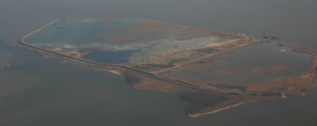 Oblique air photo of Hart Miller Island, Chesapeake Bay, Maryland, looking east. Photo taken December 2006 and uploaded by James Stuby.